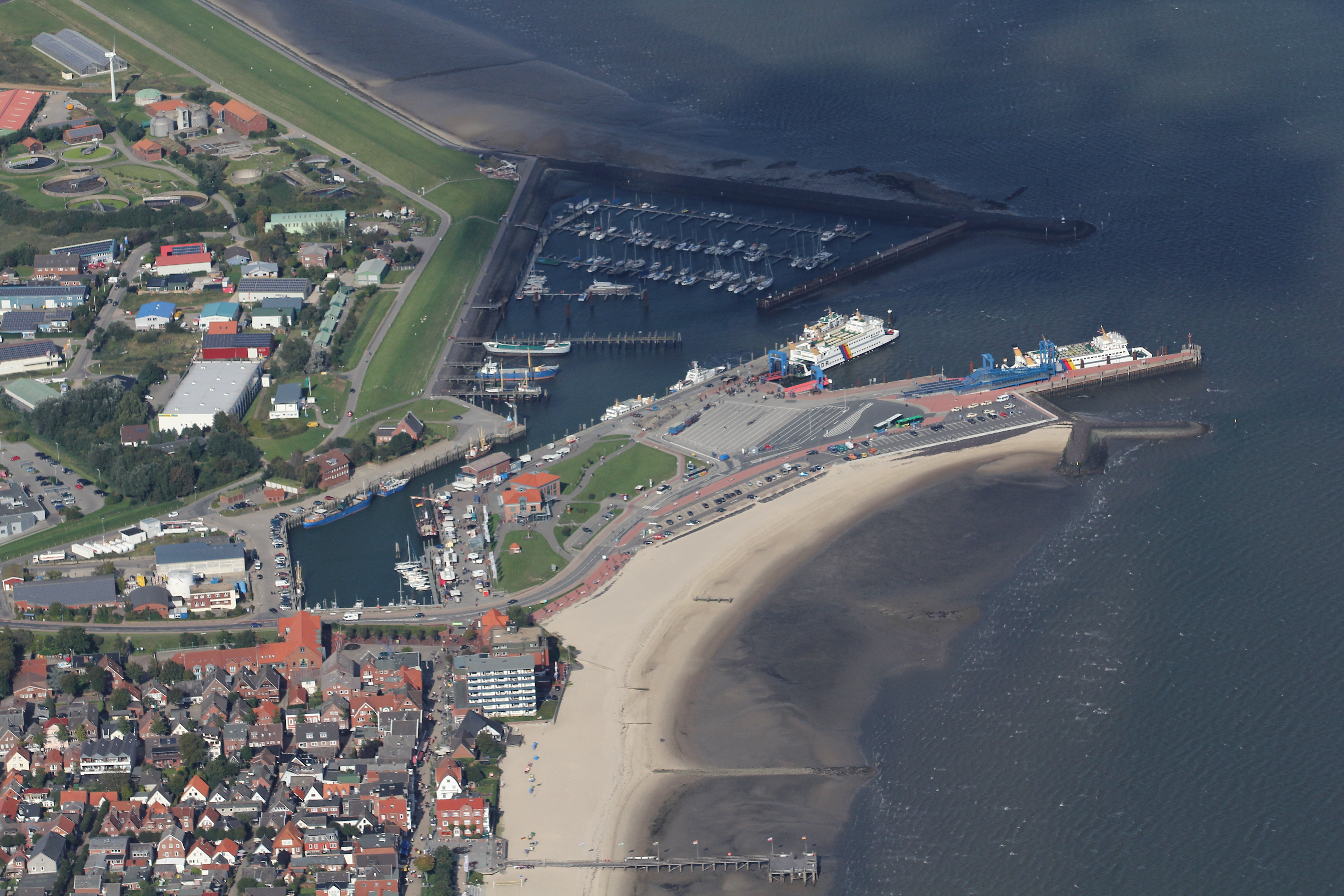 A aerial photograph of a unidentified location.